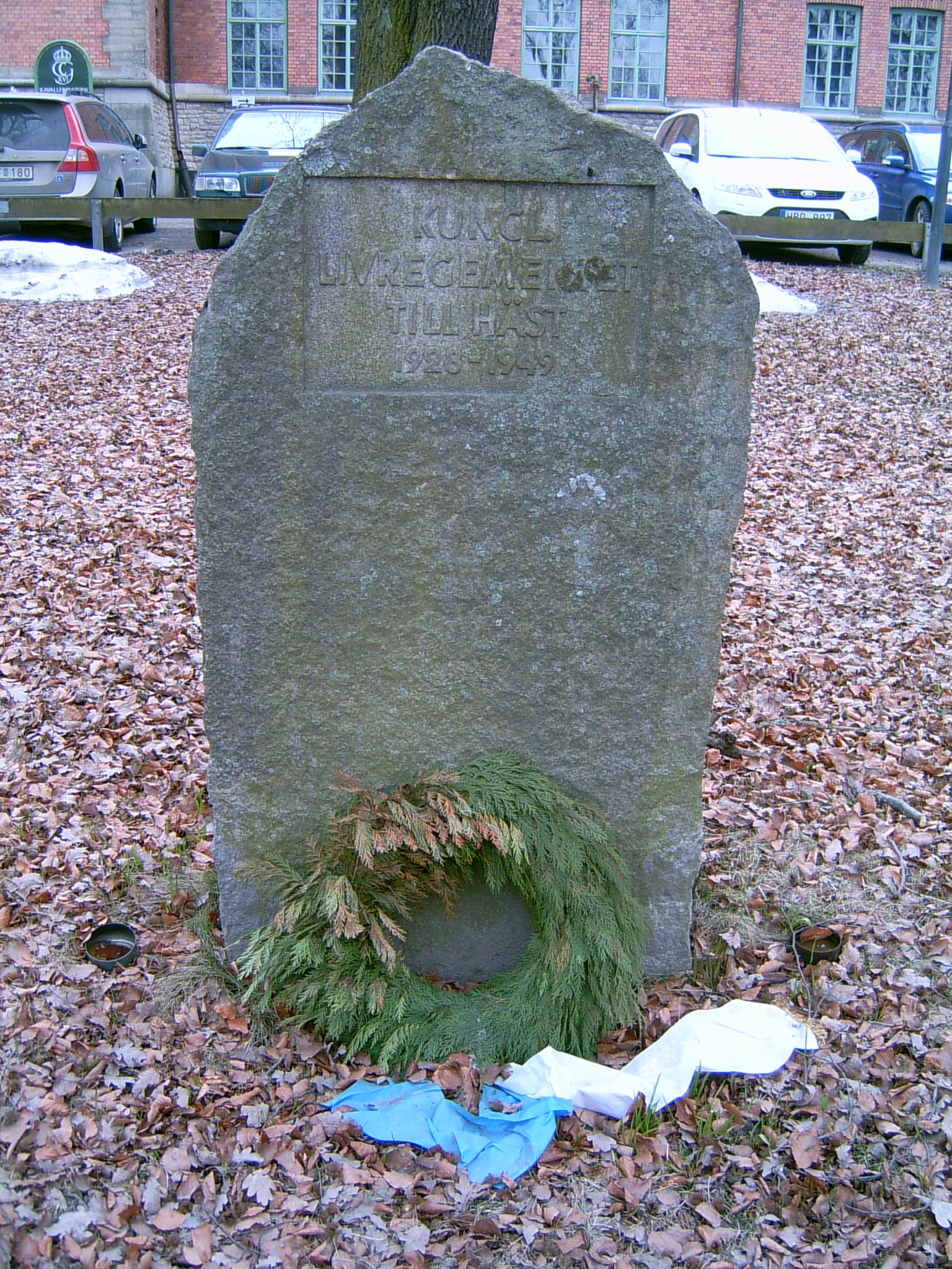 Memorial stone of Livregementet till häst (K 1) at Lidingövägen in Stockholm. It reads: "KUNGL. LIVREGEMENTET TILL HÄST 1928-1949."